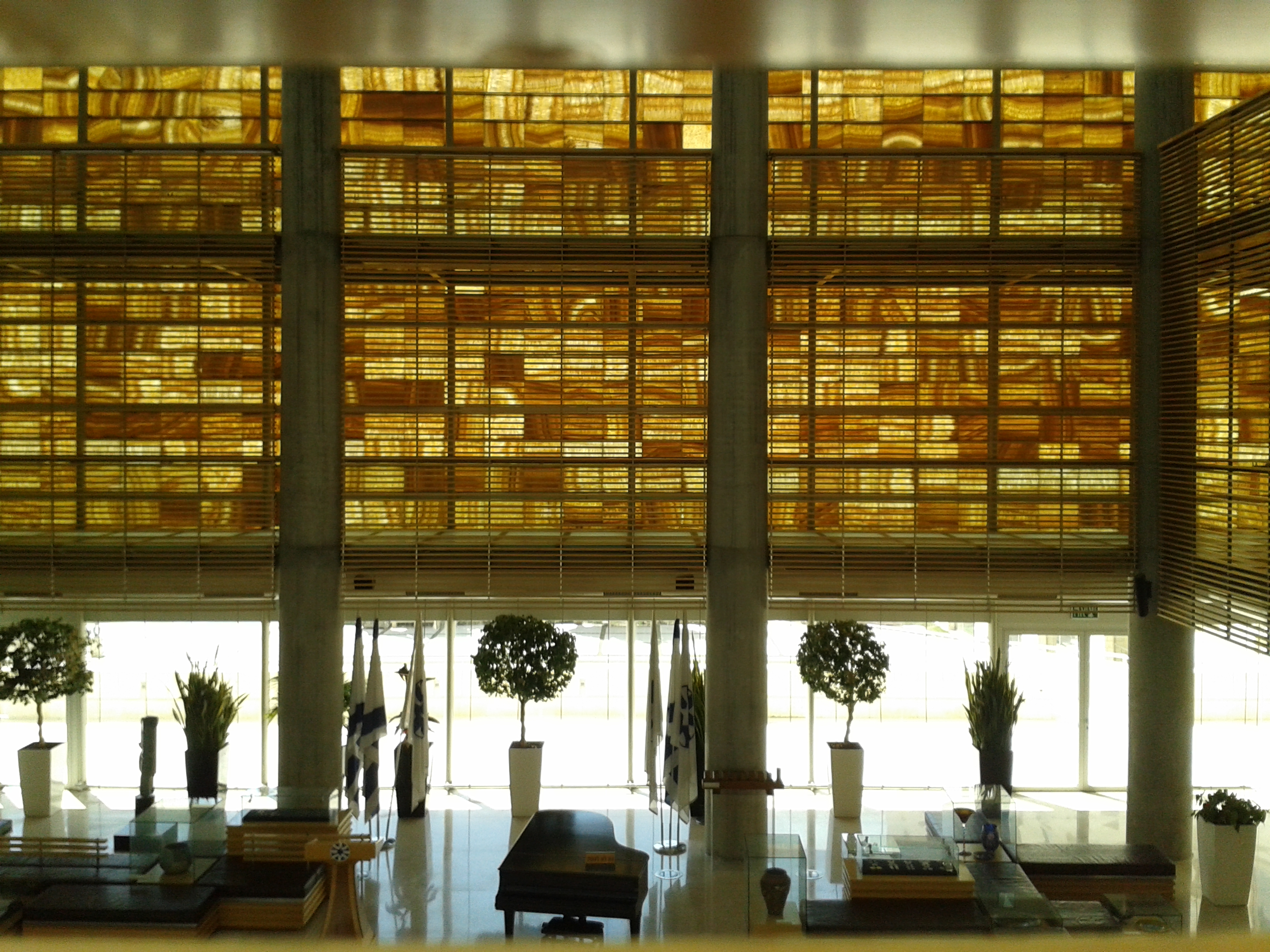 The Ministry of Foreign Affairs of Israel